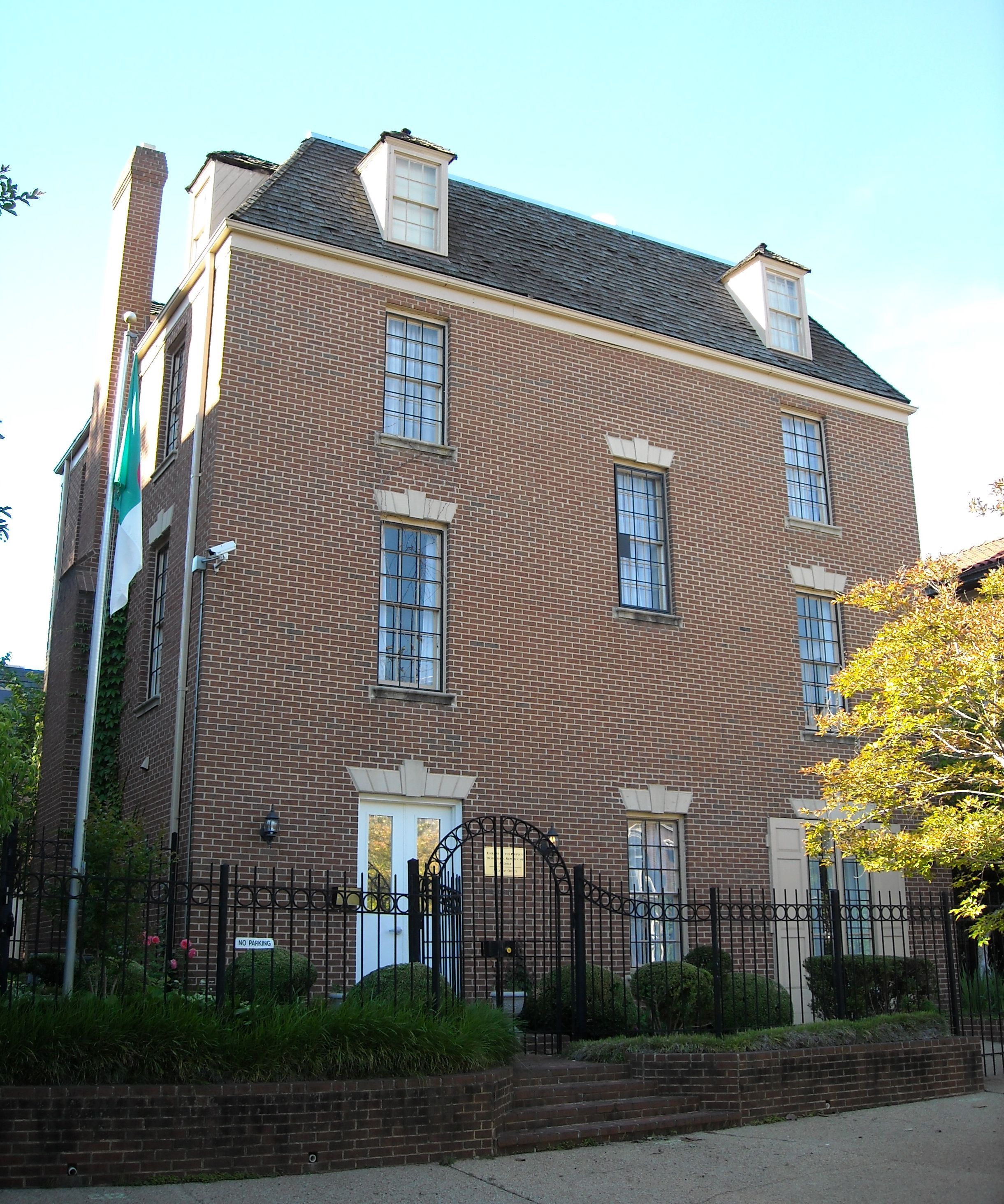 Embassy of Algeria to the United States. Located in Washington, D.C.